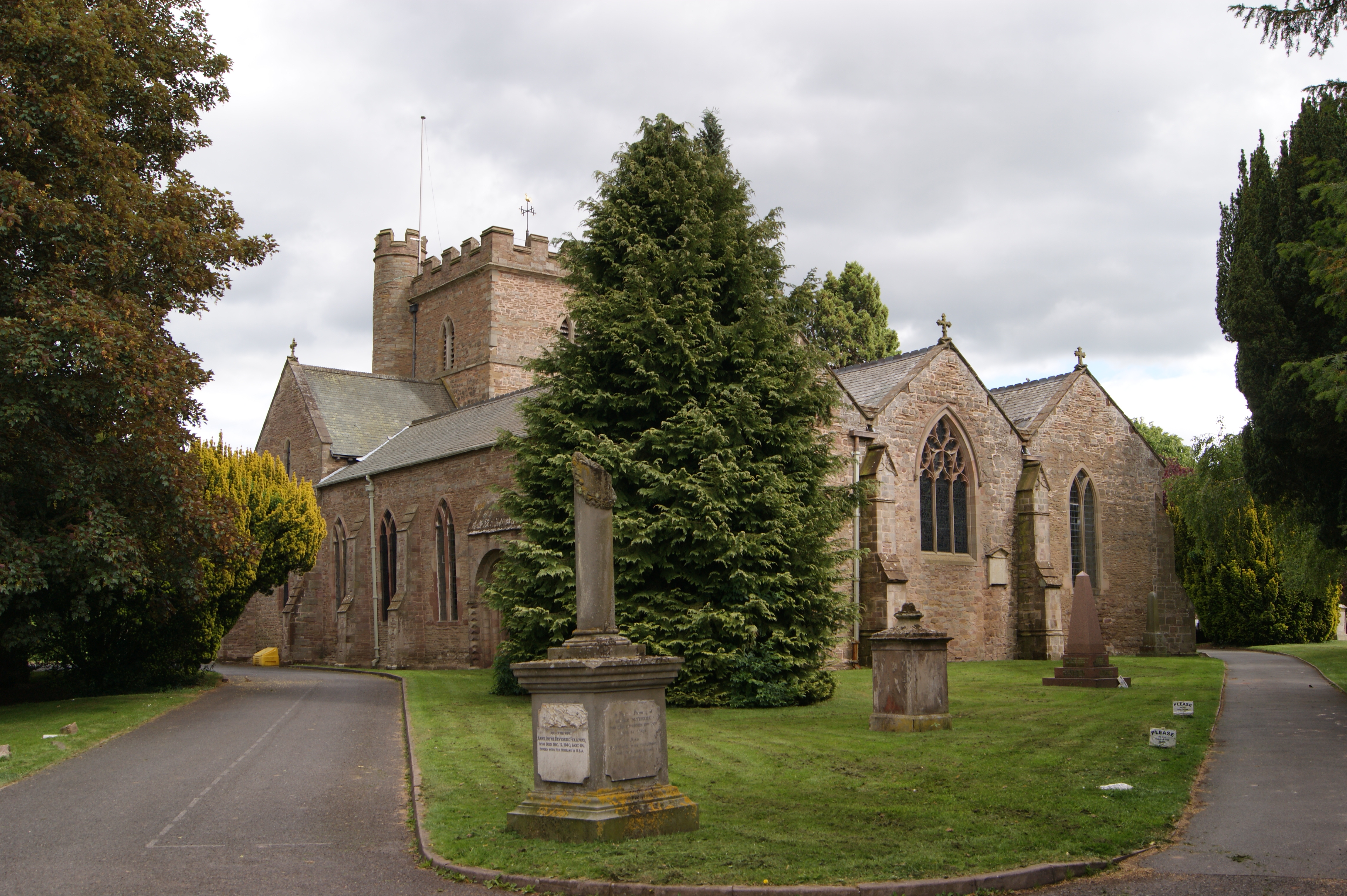 Bromyard Church (St. Peter), 22 June 2015, Herefordshire. Founded c.840 as a Saxon Mimster, with only a carving of St. Peter and a consecration stone surviing, these being above the porch doorway. The present church is mainly 12th Century Norman with later alterations. Pictured is the church taken from the north west.